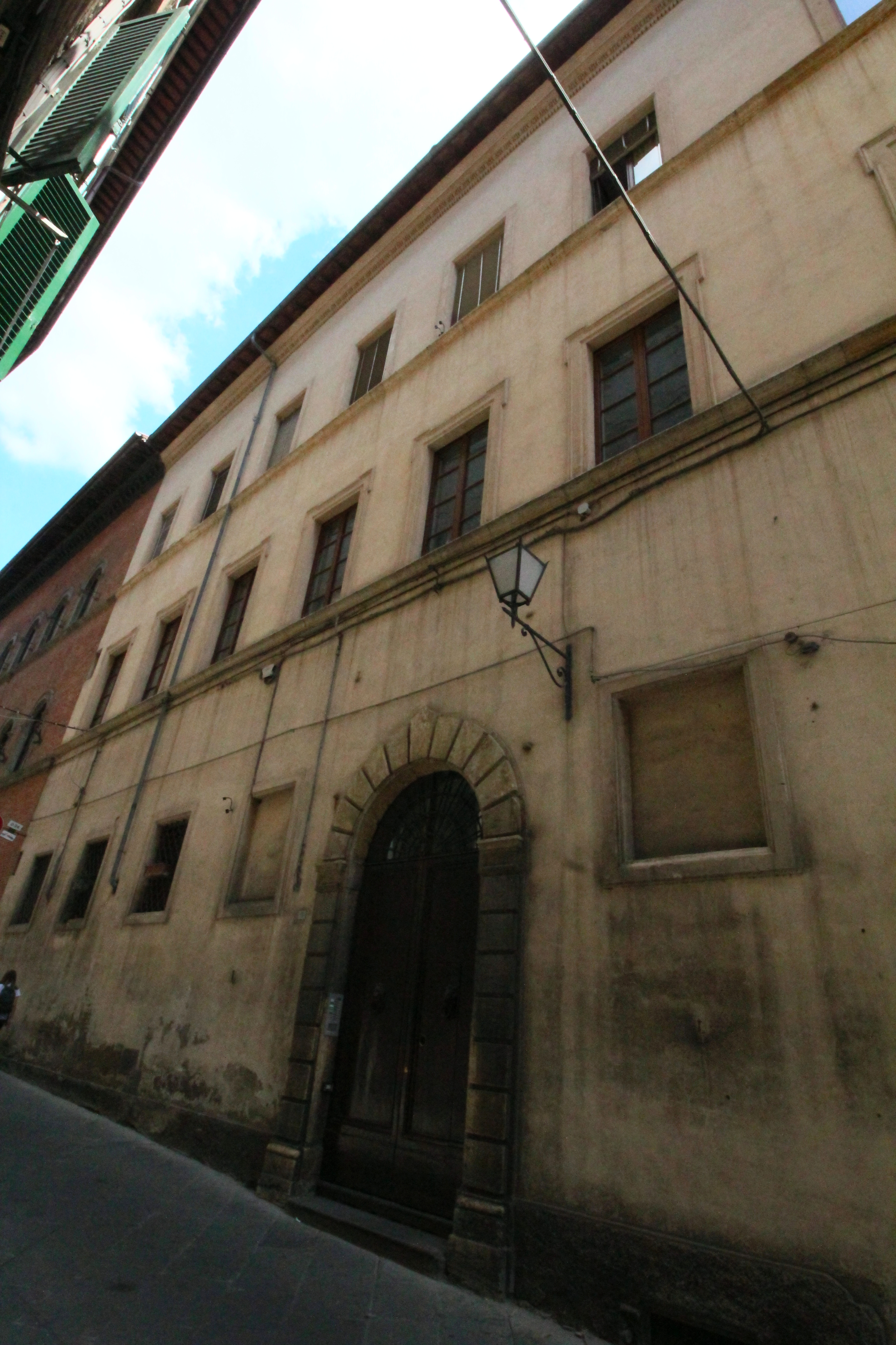 Palazzo Venturi Gallerani, Via delle Cerchia 5, Terzo di Città, Siena, Province of Siena, Tuscany, Italy